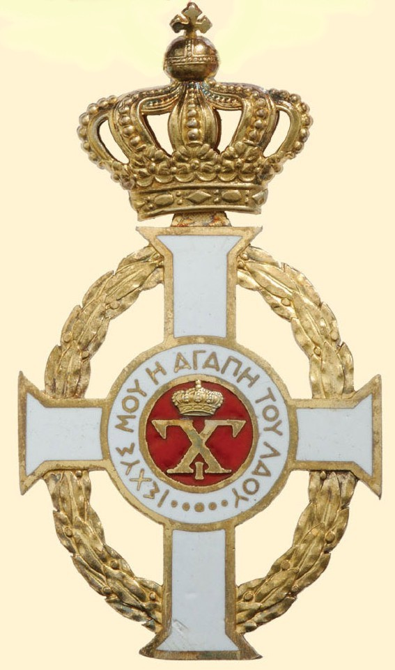 greece georg cross